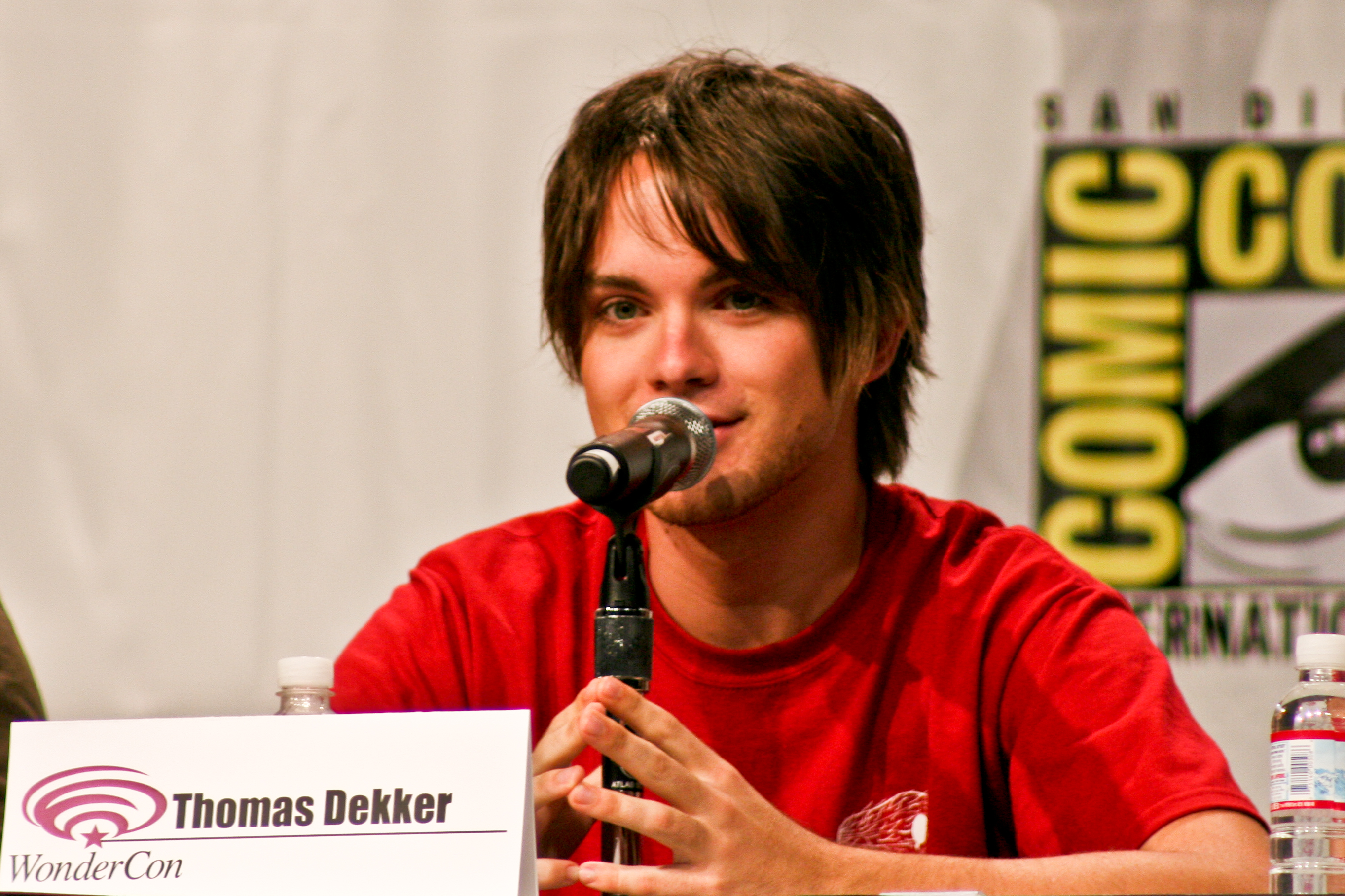 Thomas Dekker on a panel at WonderCon 2008